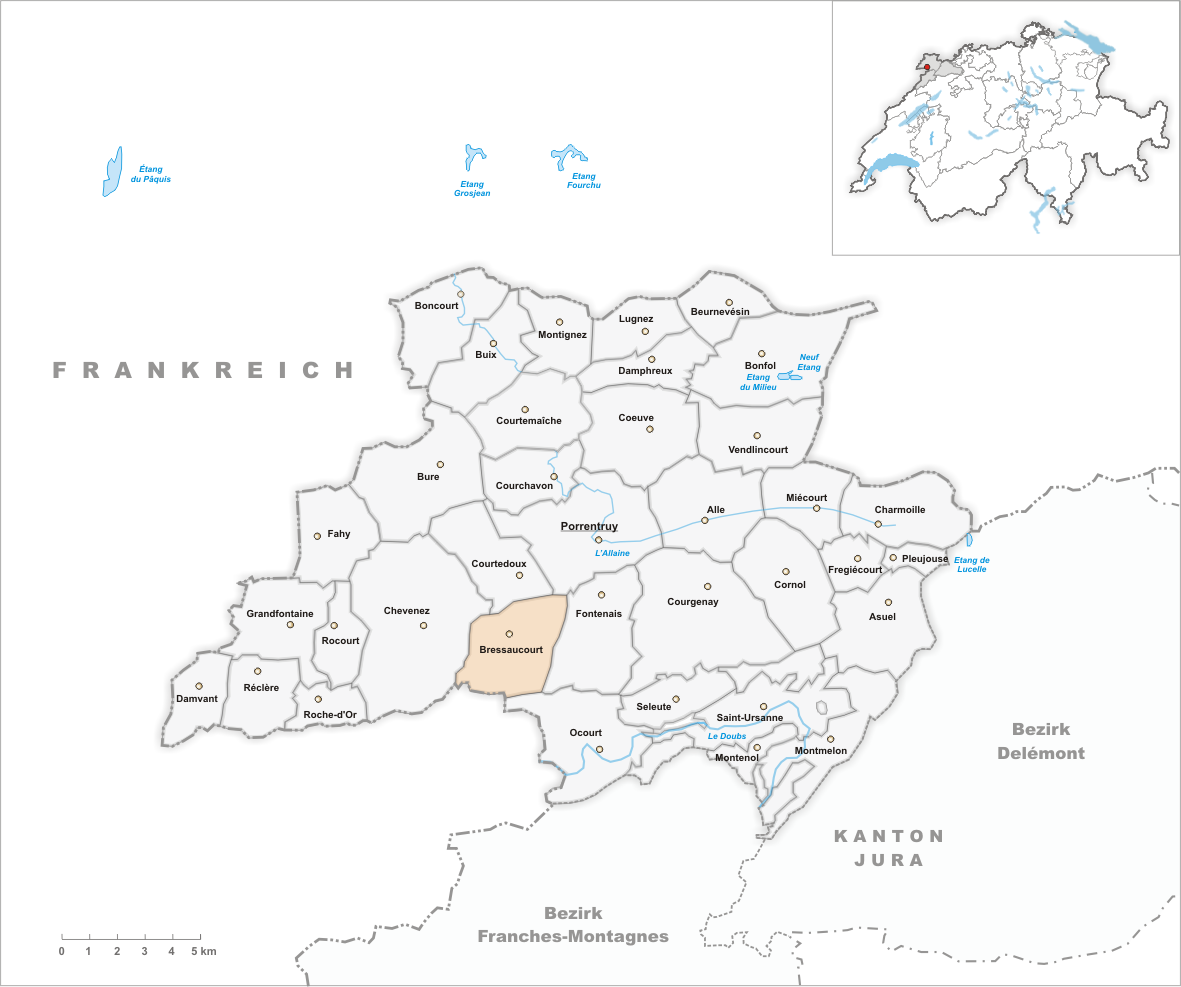 Municipality Bressaucourt Artist: Tschubby